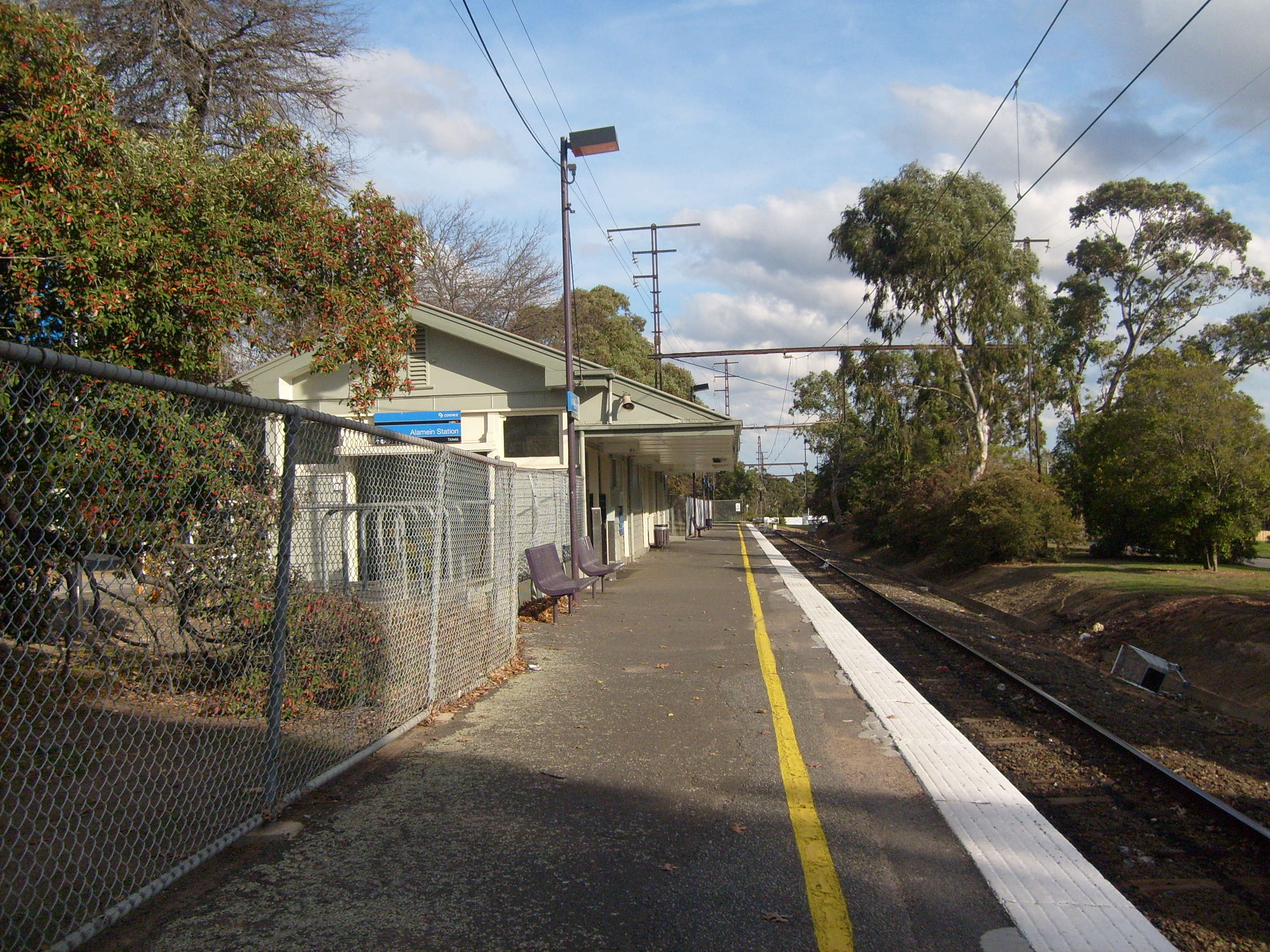 Alamein Station in 2008